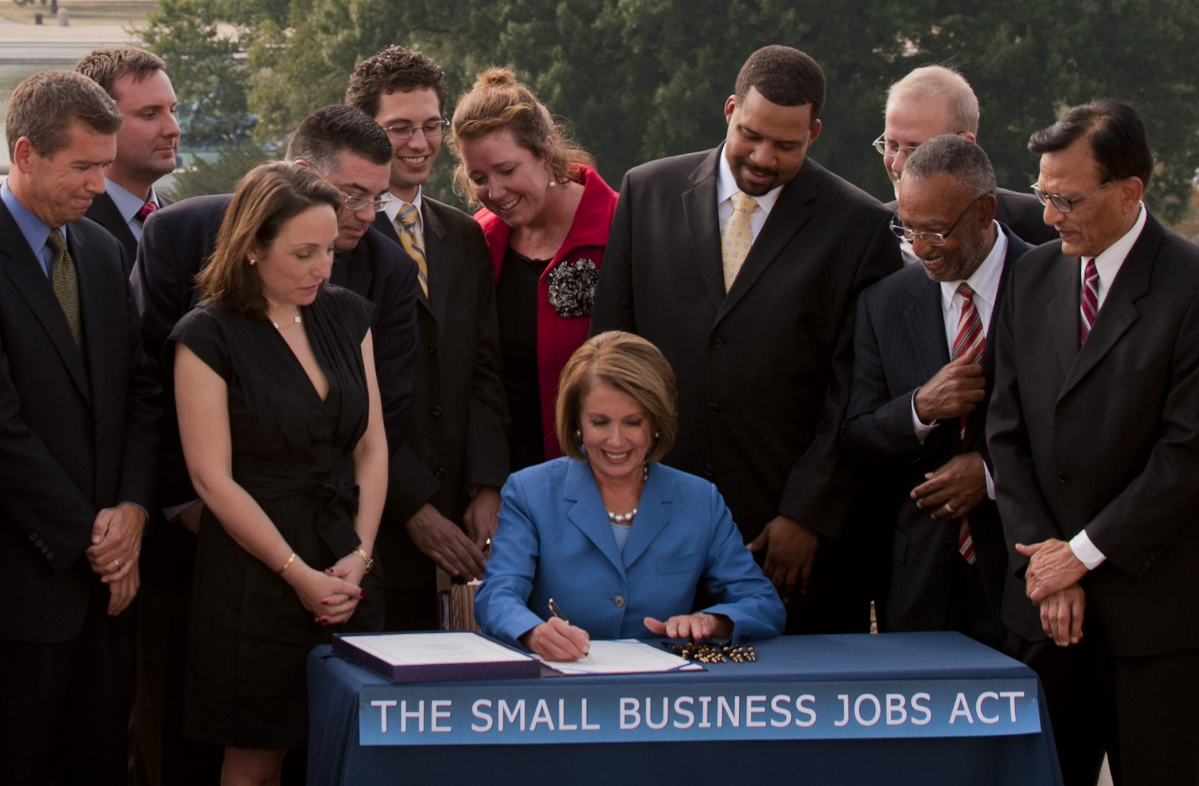 Today, Speaker Pelosi joined senior Members of Congress and small business owners and advocates at an enrollment ceremony at the Capitol this afternoon to sign H.R. 5297, the Small Business Jobs Act, and send it to President Obama for his signature into law.